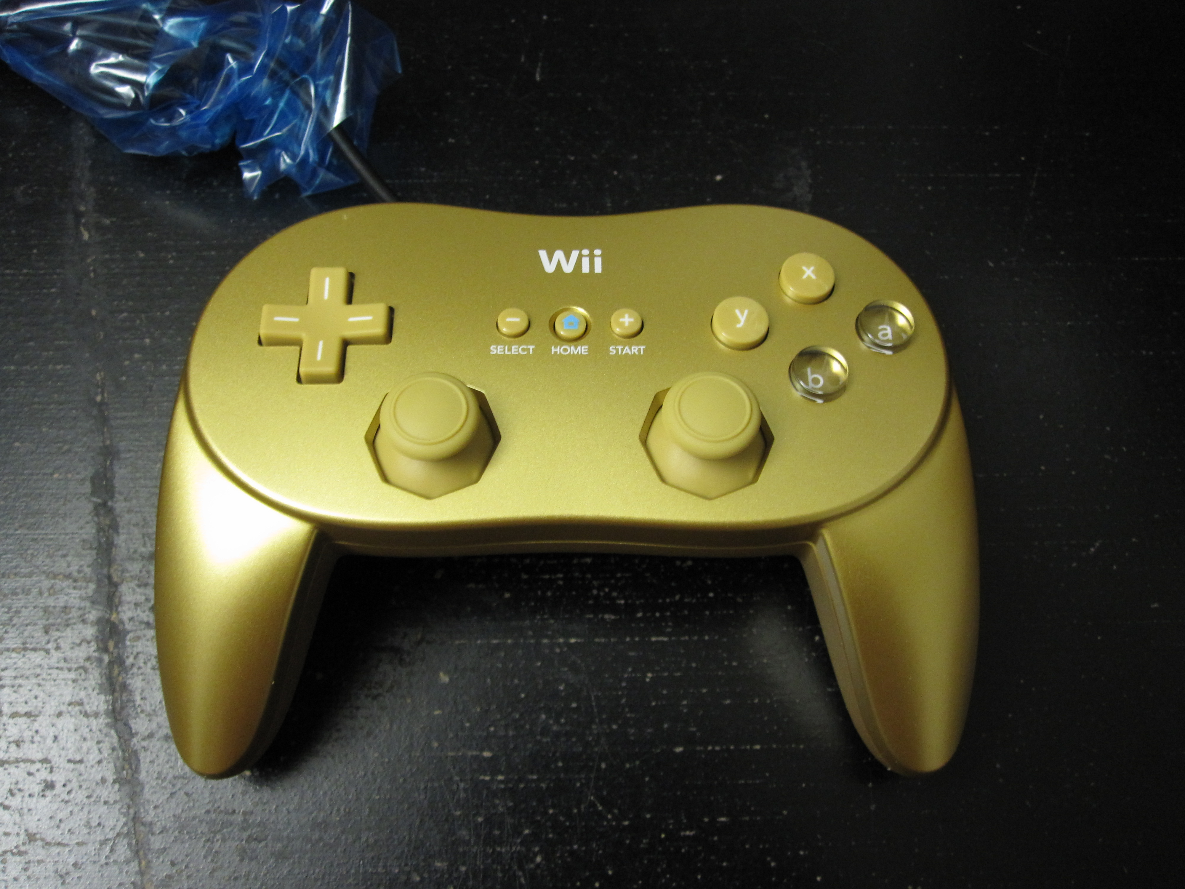 A newly unboxed Gold Classic Controller Pro that was bundled with Goldeneye 007.